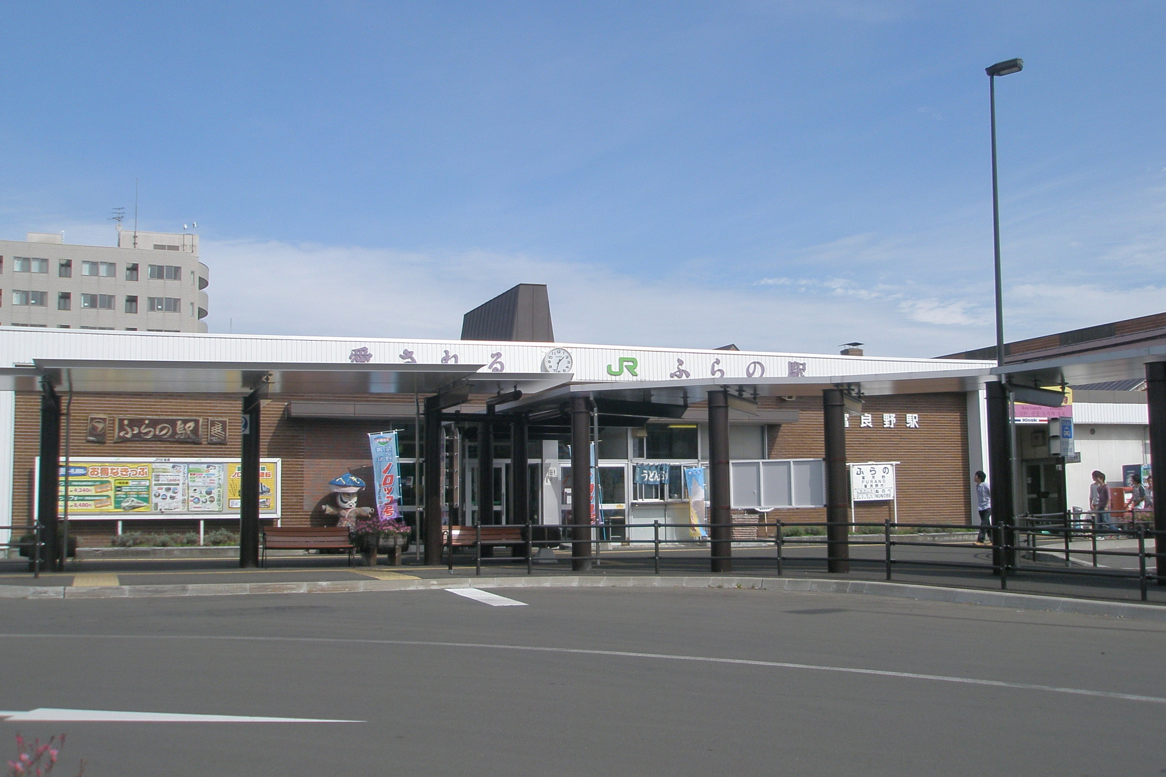 Furano Station entrance and forecourt